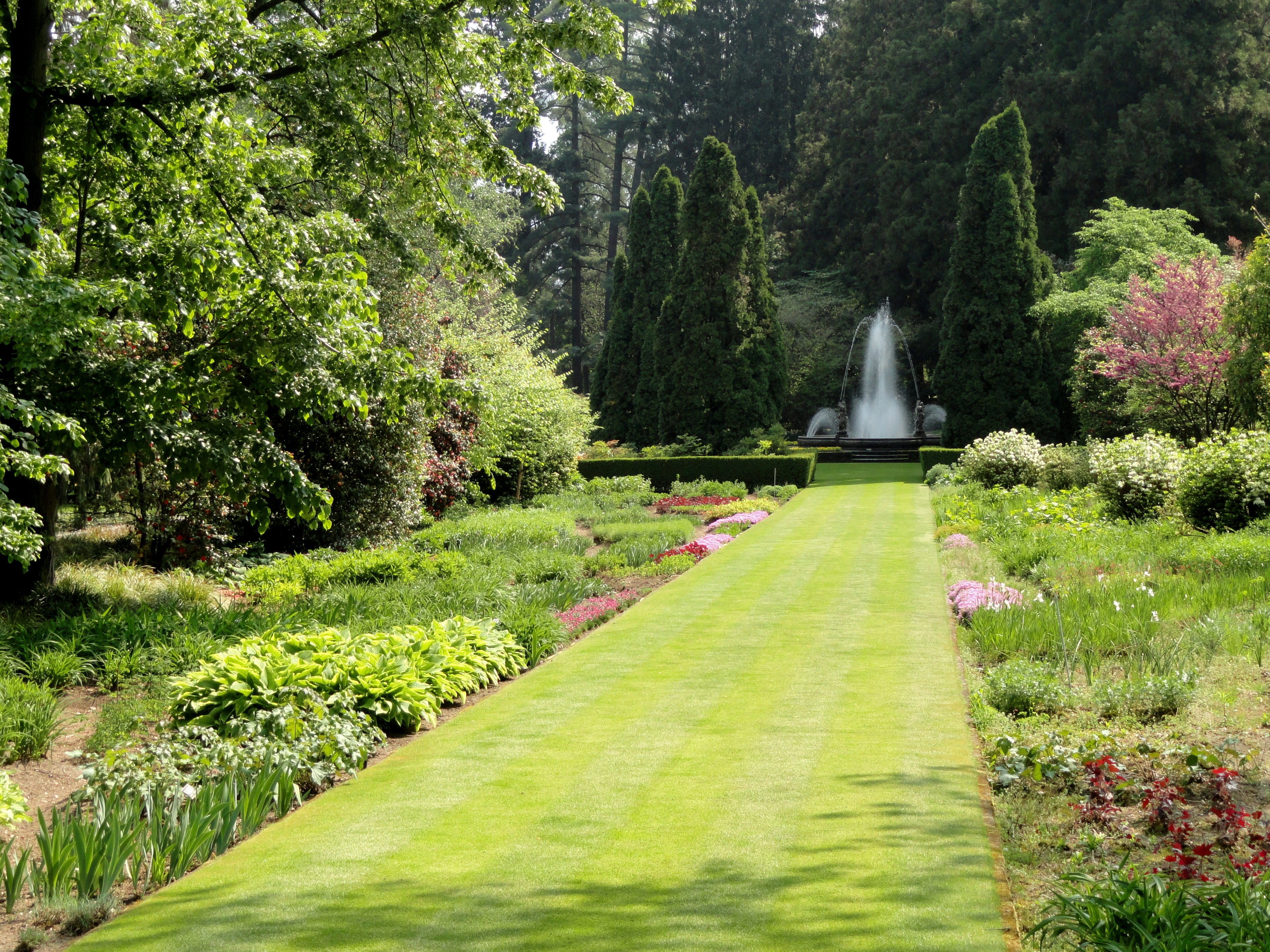 General view of Villa Taranto (Verbania), Lake Maggiore, Italy.